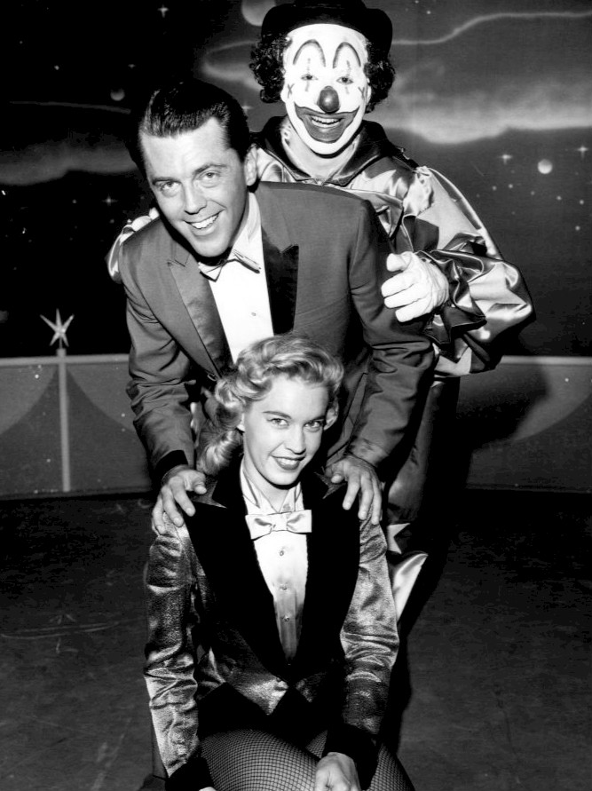 Cast photo of the children's program The Magic Land of Allakazam. From top-Rebo the Clown, Mark Wilson and Nani Darnell. Wilson and Darnell are husband and wife; he was the magician on the program and she was his assistant.